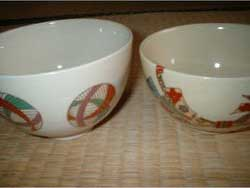 Two typical usuicha (thin tea) bowls for the Japanese tea ceremony. Photo by Exploding Boy 06:42, Jan 25, 2004 (UTC)